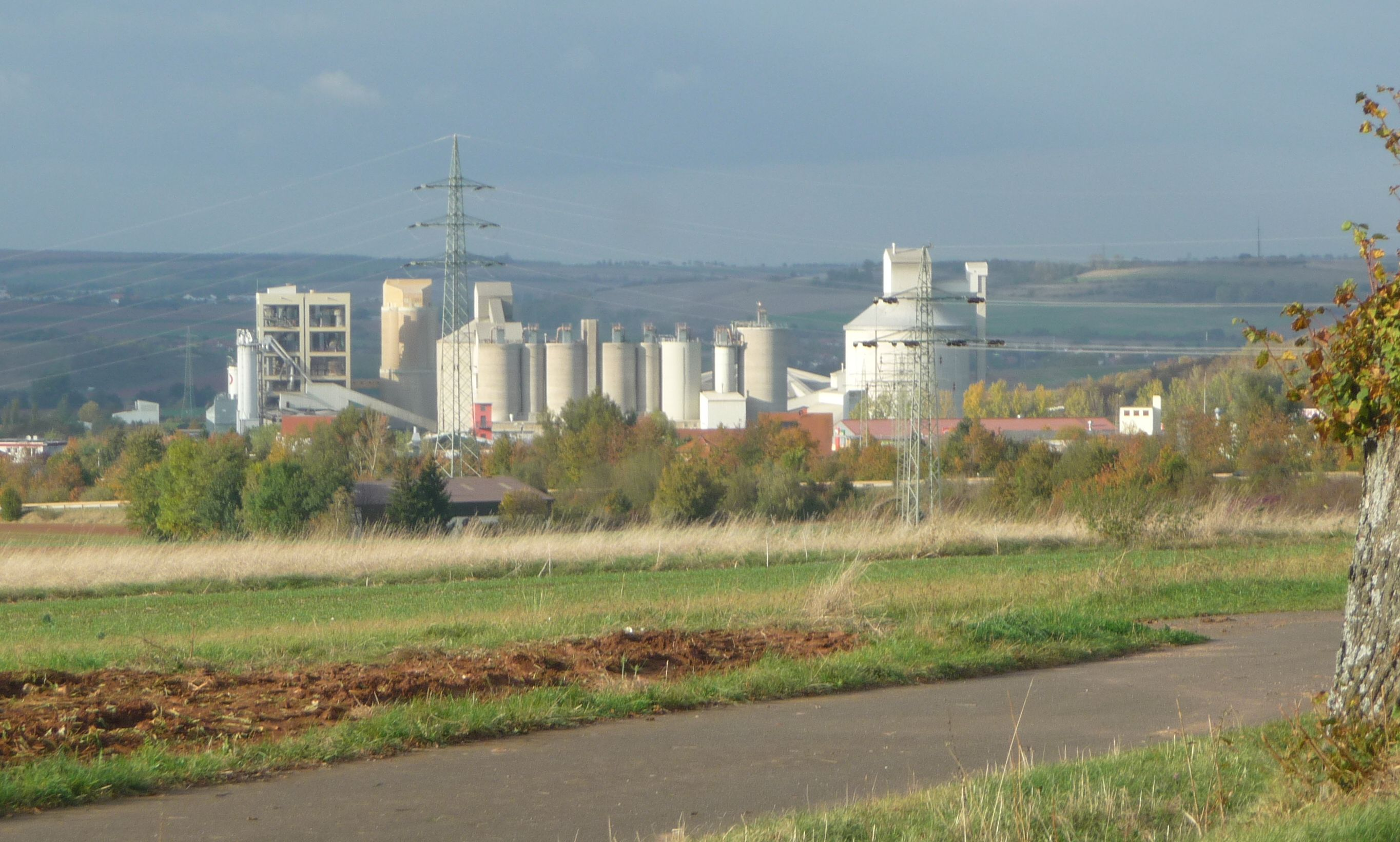 Göllheim in Rhineland-Palatinate, Germany